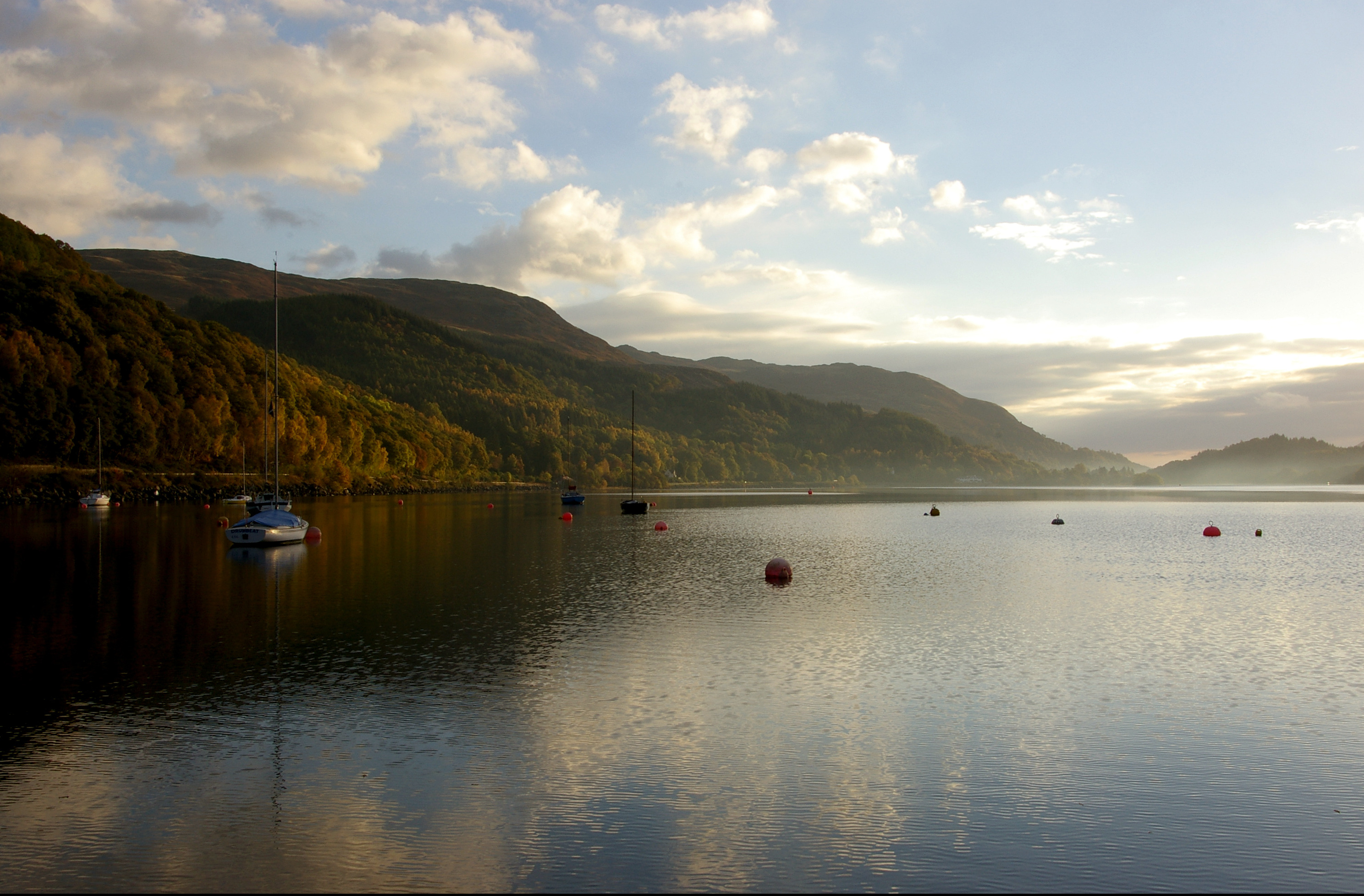 View from Loch Earn sailing club towards St. Fillans in the early hours of the morning.